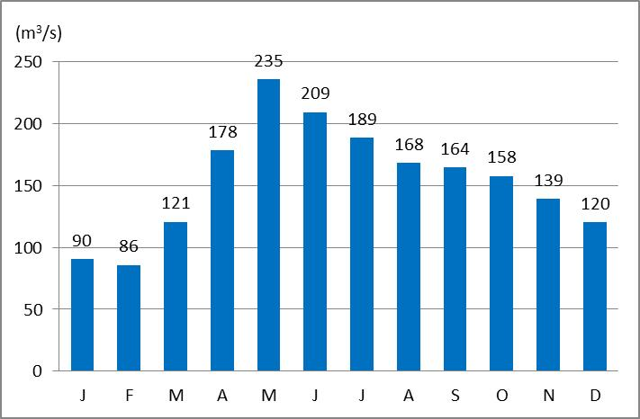 Average monthly discharges of Mura River at the gauging station Gornja Radgona in 1981–2010